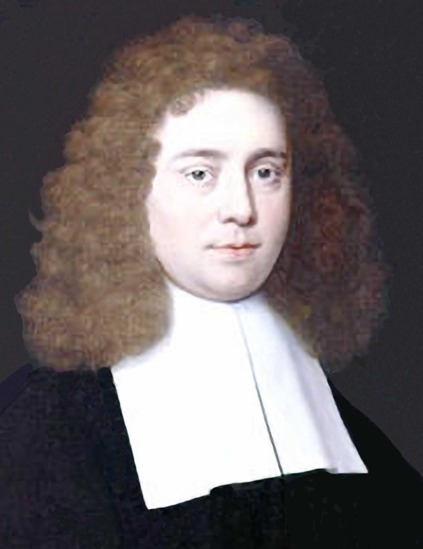 Portrait of Johannes Munnicks, signed below left 'COR:/JANSON' EN RECHTSONDER: 'VAN CEULEN'.